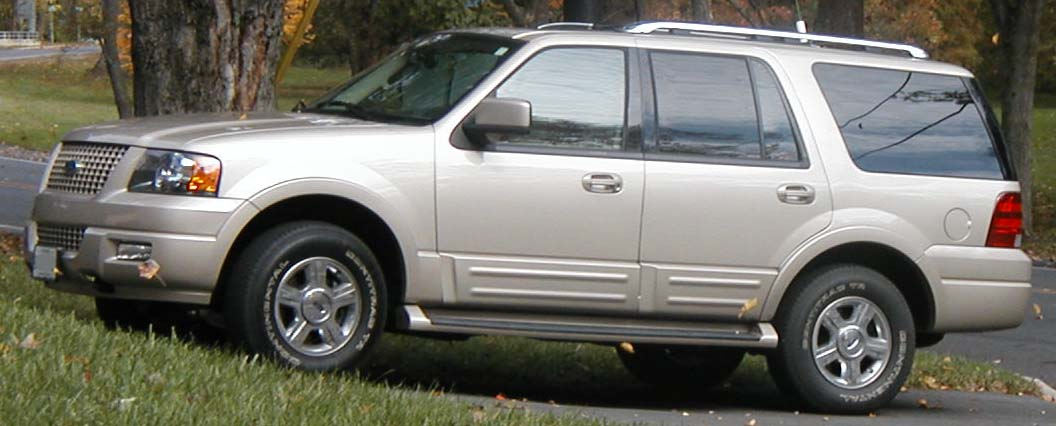 2003-2006 Ford Expedition photographed in USA.